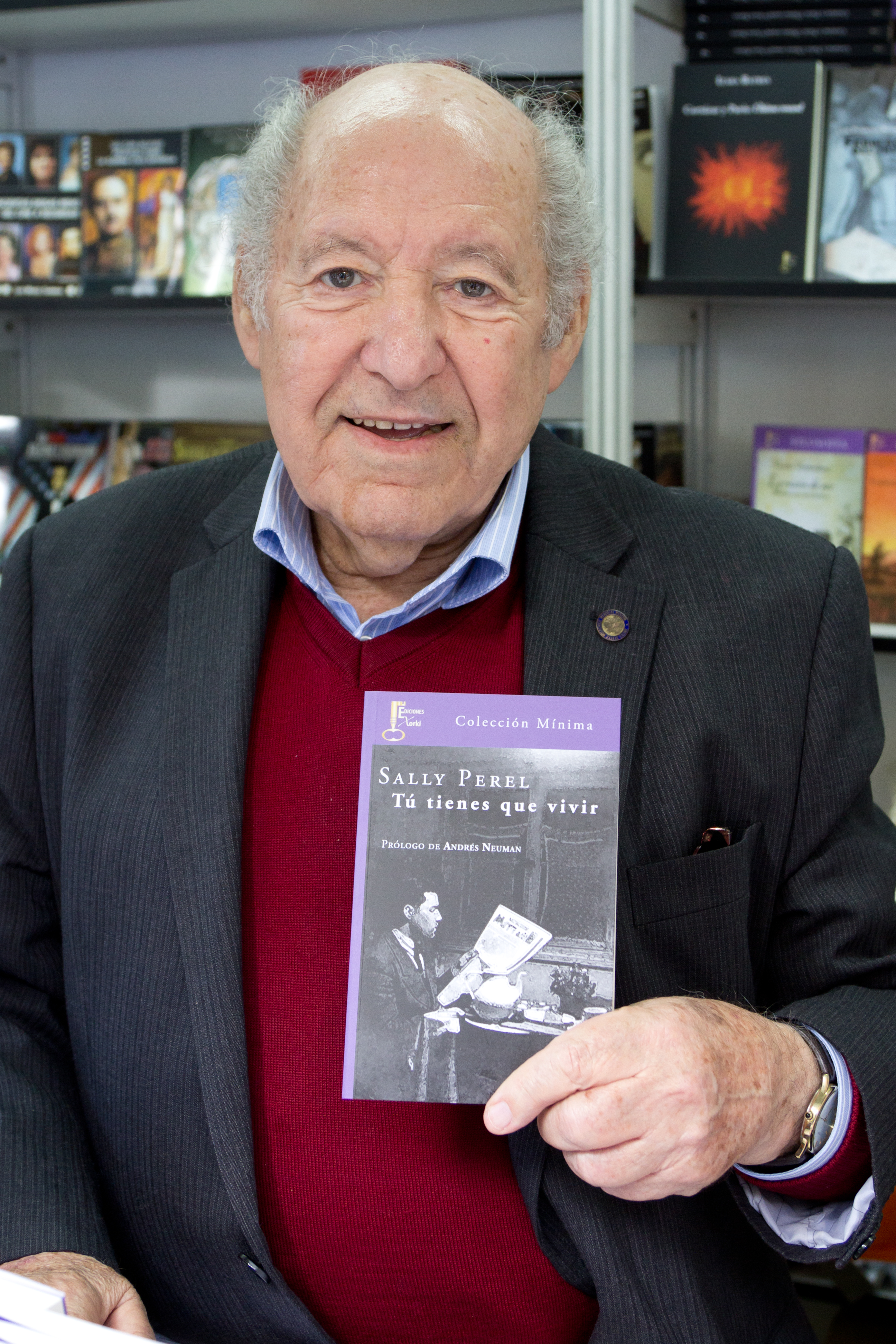 Sally Perel at the Madrid Book Fair 2014. Book title: Tú tienes que vivir.